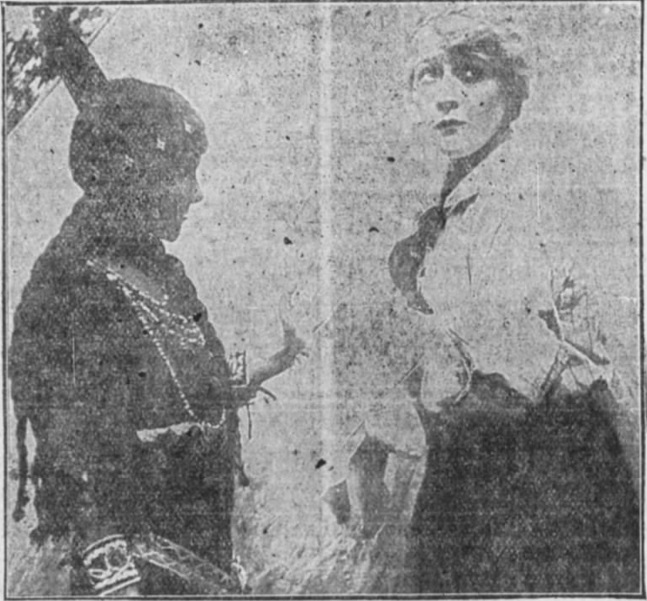 Still from the film Life's Shop Window, showing Theresa Michelena as The Indian Woman (left) and Claire Whitney as Lydia Wilton (right). As printed in The San Bernardino County Sun, 17 June 1915 (p. 10).